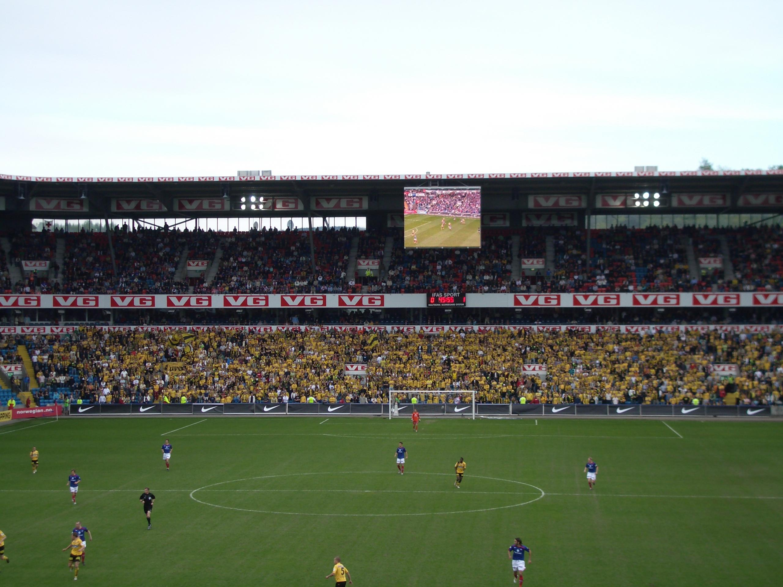 Ullevaal Stadion in Oslo, Norway. A match between Vålerenga and Lillestrøm, this image shows the supporters of Lillestrøm.